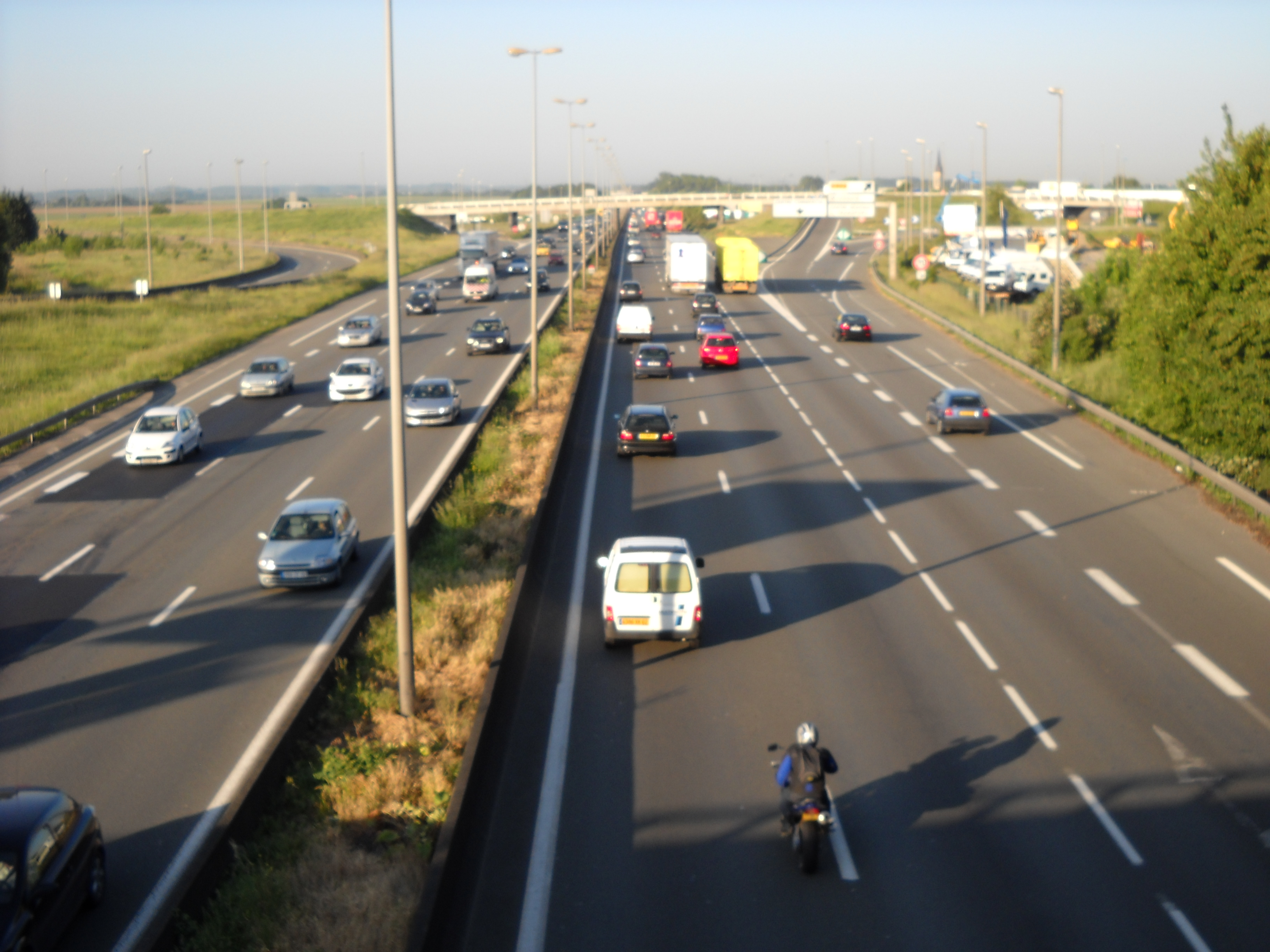 Motorway A1, in Lesquin, Nord, France.